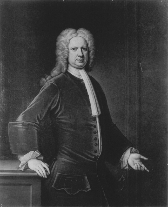 Portrait of a gentleman. This painting was thought to depict Massachusetts colonial lieutenant governor William Tailer, painted by John Smibert. The Smibert signature was determined to be a forgery in the 1940s, and the painting has since been reattributed to Thomas Gibson, a Smibert contemporary. The subject's identity is unknown.